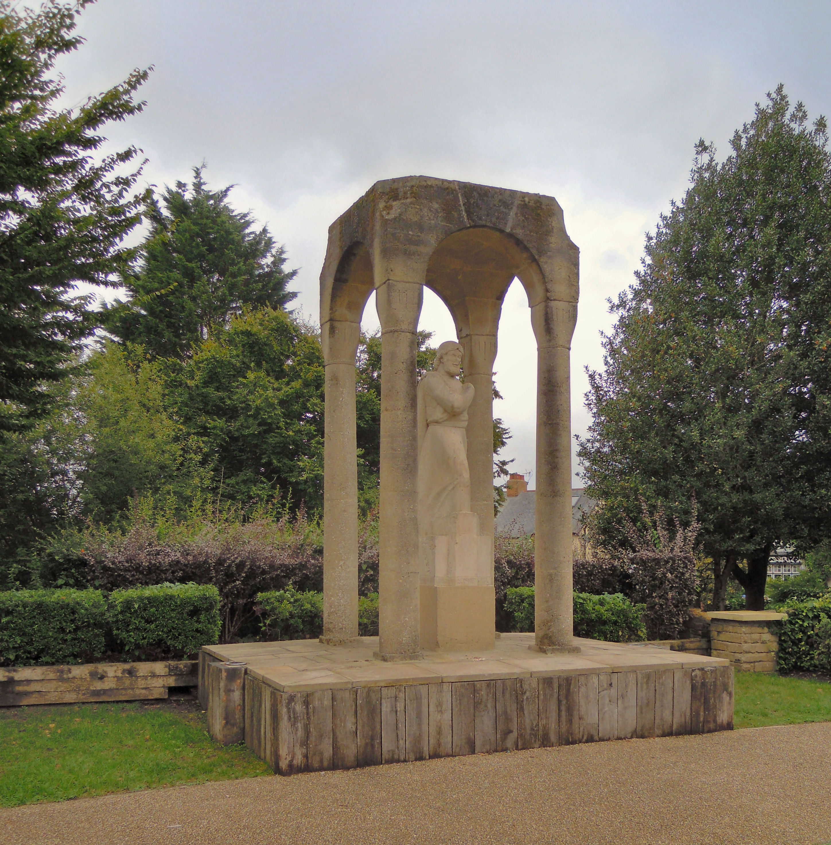 Statue of Christ Calming the Storm at the Heroes' Shrine in Manor Park in Aldershot in Hampshire